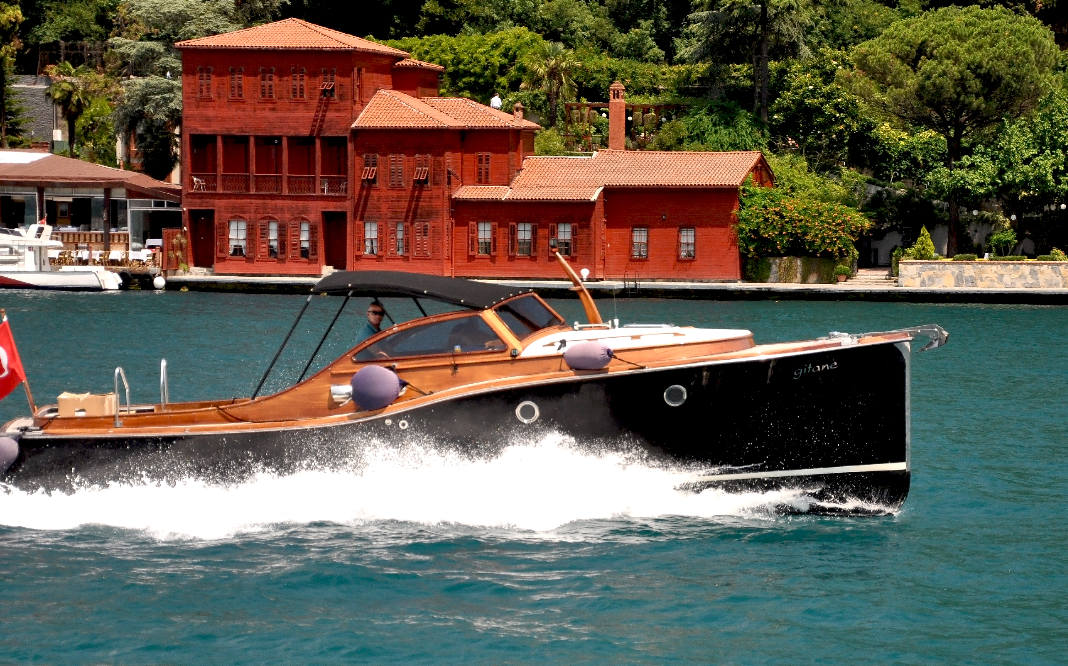 Hekimbaşı Salih Efendi Yalısı, an Yali ottoman mansion in Kanlıca on the shore of Bosphorus in Turkey. This ottoman mansion was built in the XIXth century to replace an older building. Today it is used for receptions and concerts. Salih Efendi, a graduate of the first medical school in the Ottoman Empire during the reign of Sultan Mahmut II, was the head physician for three sultans. He was interested in botany. The mansion is one of the rarest mansions on the Bosphorus which still keeps its original architectural style and its original furniture. The present occupants of the mansion are the family members of Salih Efendi, who died in 1905.